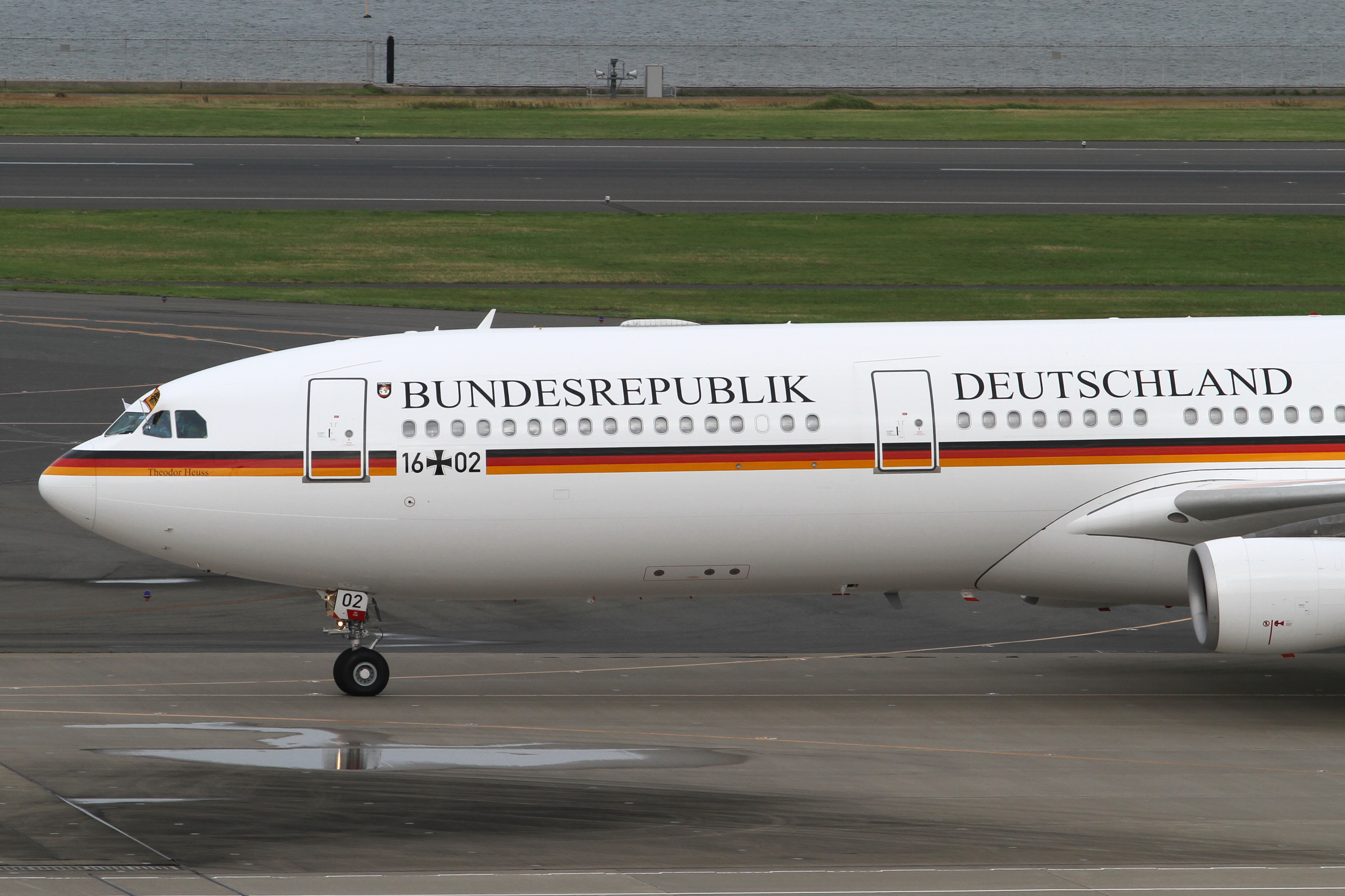 Tokyo International Airport, Airbus A340-313X, c/n:355, German Air Force President Christian Wulff's official visit to Japan